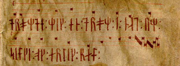 Detail of a page of the Codex_Runicus, containing the oldest recorded music in Scandinavia, with the text Drømde mik æn drøm i nat, um silki ok ærlik pæl